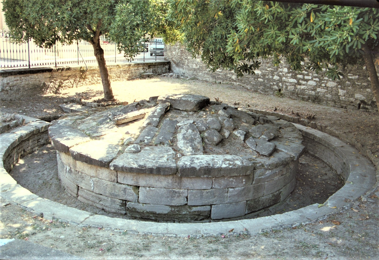 Tomb of Menekrates (Corfu). It is a circular tomb, constructed in the 6th century BC to honor of Menekrates.